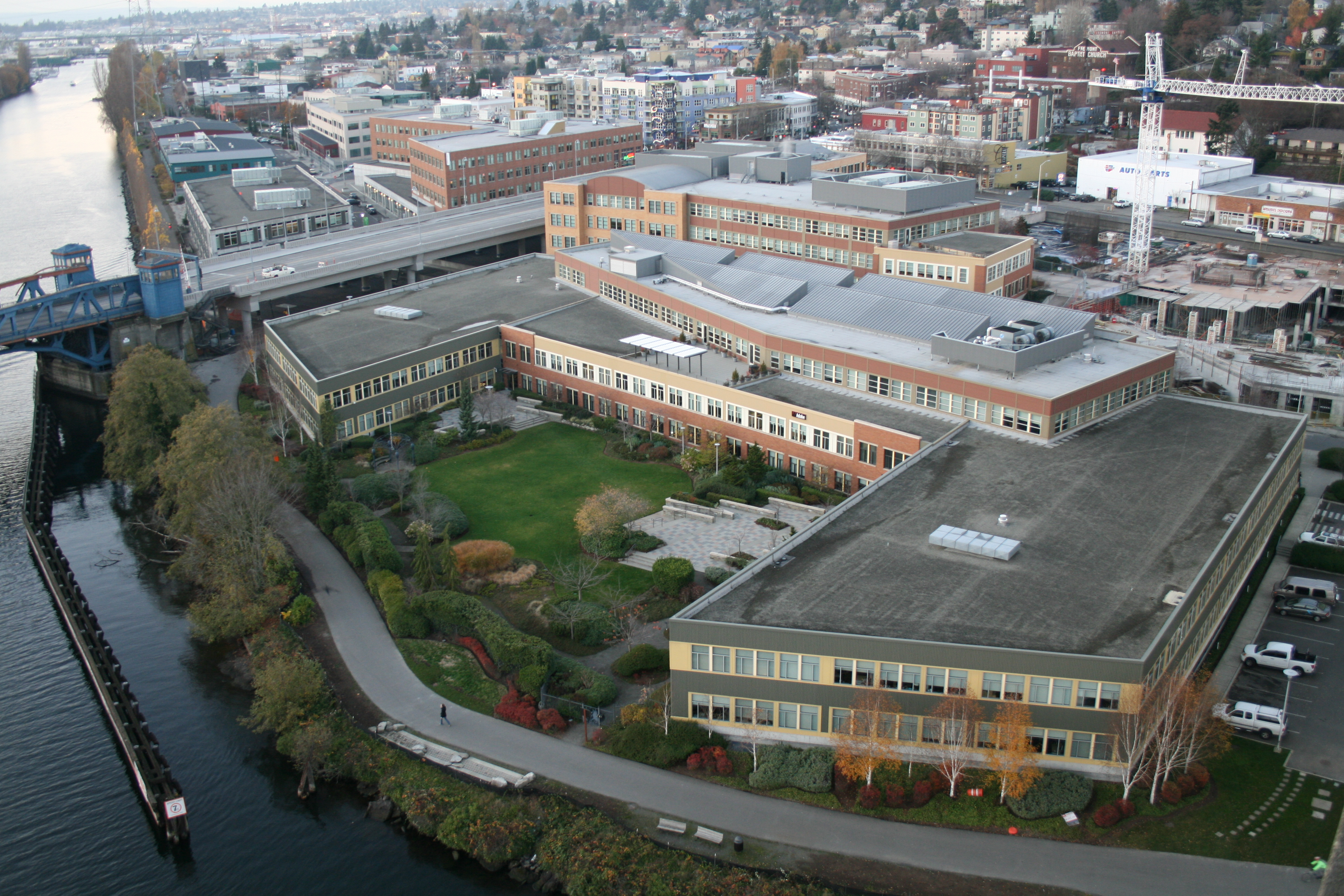 Adobe Systems from the George Washington Memorial Bridge